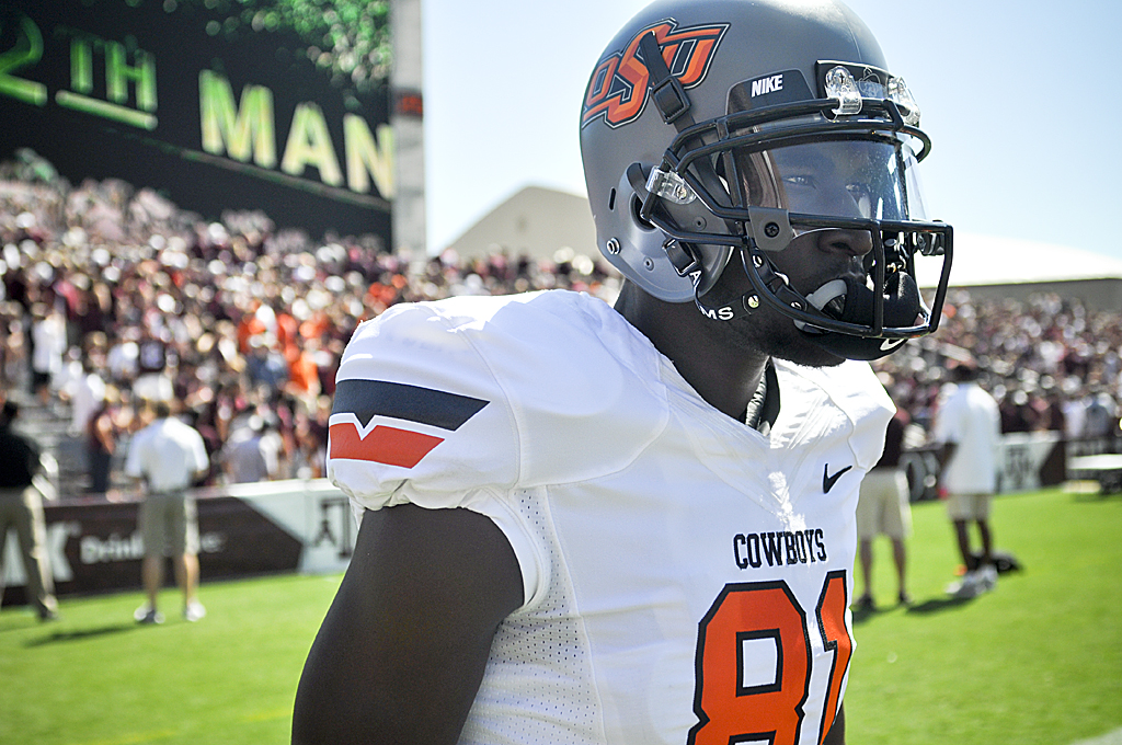 Justin Blackmon